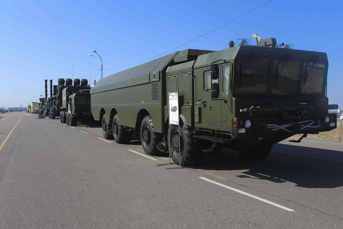 K-300P Bastion-P